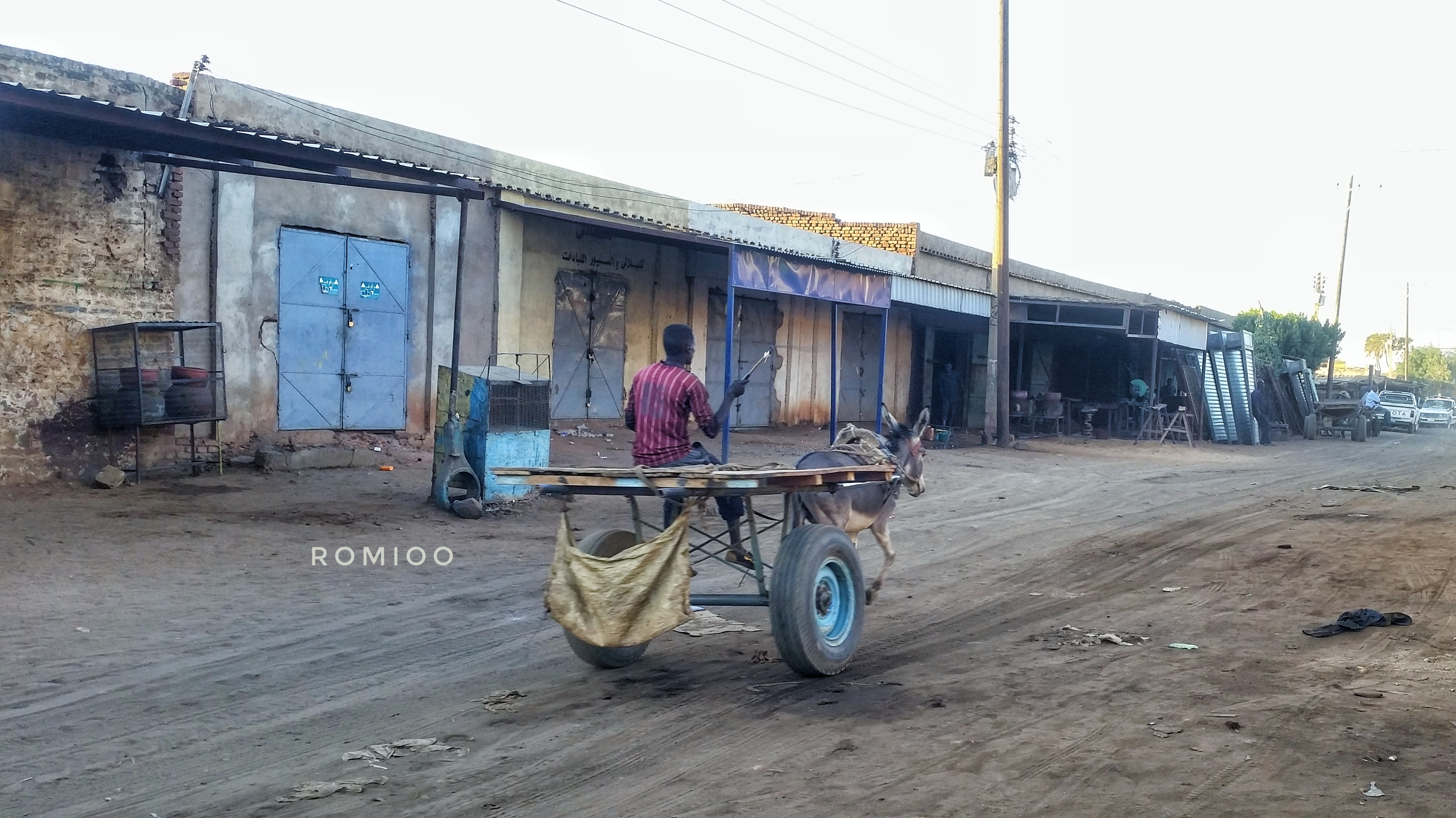 WLASudan2020 This is an image with the theme "Africa on the Move or Transport" from: Sudan